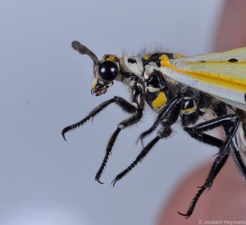 Tomatares citrinus (Hagen, 1860) - Dinokeng North of Pretoria, South Africa